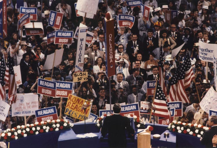 Photo courtesy Ronald Reagan Library, White House Photo, PD Ronald Reagan giving his Acceptance Speech at the Republican National Convention, Detroit, Michigan. 7/17/80.